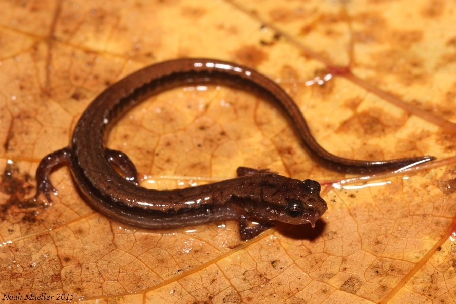 Dwarf Salamander